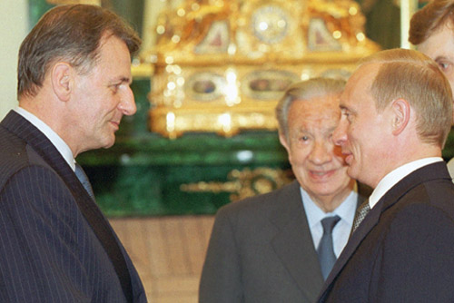 THE KREMLIN, MOSCOW. President Putin with a new president of the International Olympic Committee, Jacques Rogge (left), and the honorary president of the same committee, Juan Antonio Samaranch.